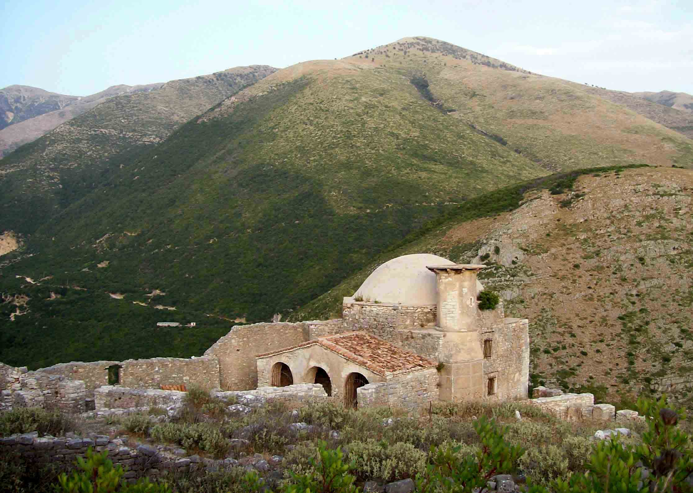 Ruin of a mosque near the albanian village Borsh Photo by Decius